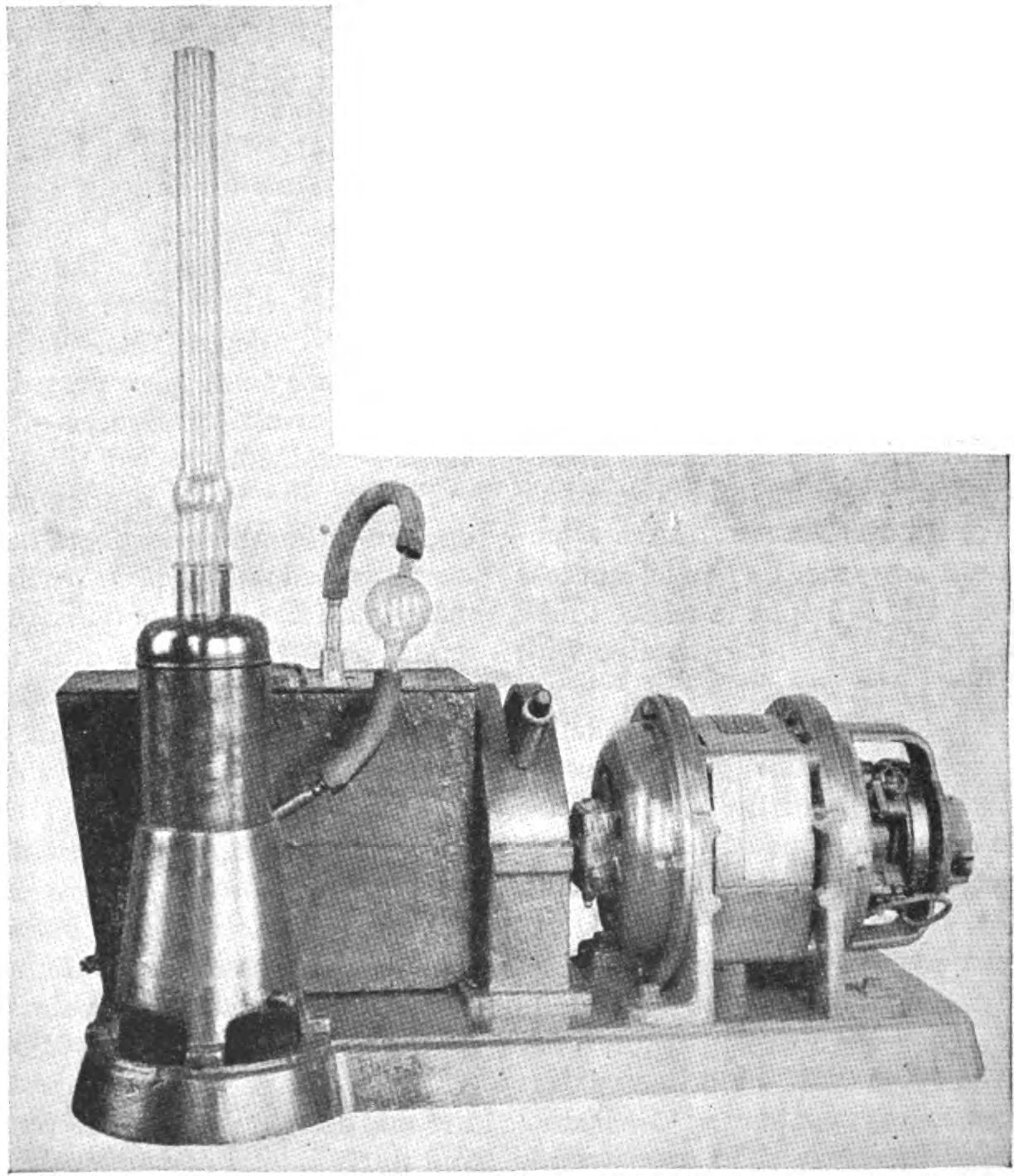 Early mercury diffusion pump developed by Irving Langmuir at General Electric in 1916. The diffusion pump is the vertical chamber in the foreground, the machine in the background is the "backing pump" required to establish the initial low vacuum. The mercury diffusion pump was invented by German researcher W. Gaede in 1913. Langmuir's innovation was a nozzle that directed the mercury vapor away from the inlet, allowing the inlet to be made larger, greatly increasing the pumping speed. He received a patent on his "mushroom cap" nozzle in 1921. The Langmuir pump, which achieved pressures down to 10-10 atmosphere, enabled the production of the first "hard vacuum" thermionic valves (vacuum tubes) which dominated radio and electronics technology for 50 years. It also was important for making incandescent light bulbs. Alterations to image: removed unrelated text from accompanying article from white area in upper right corner of image.